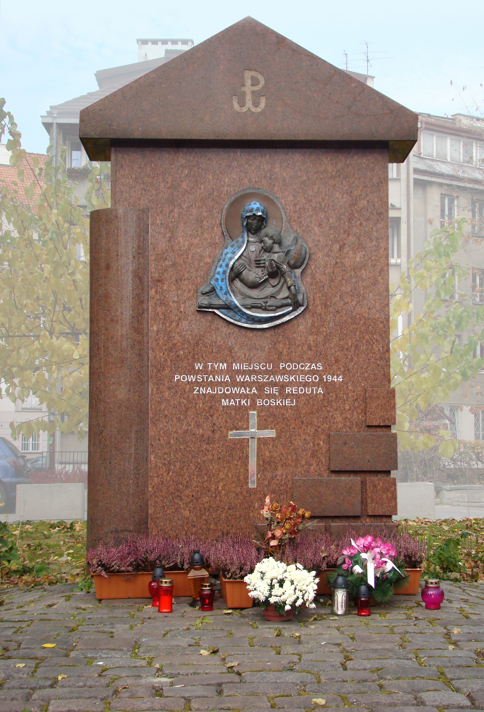 The Redoubt of the Holy Virgin Memorial in Warsaw